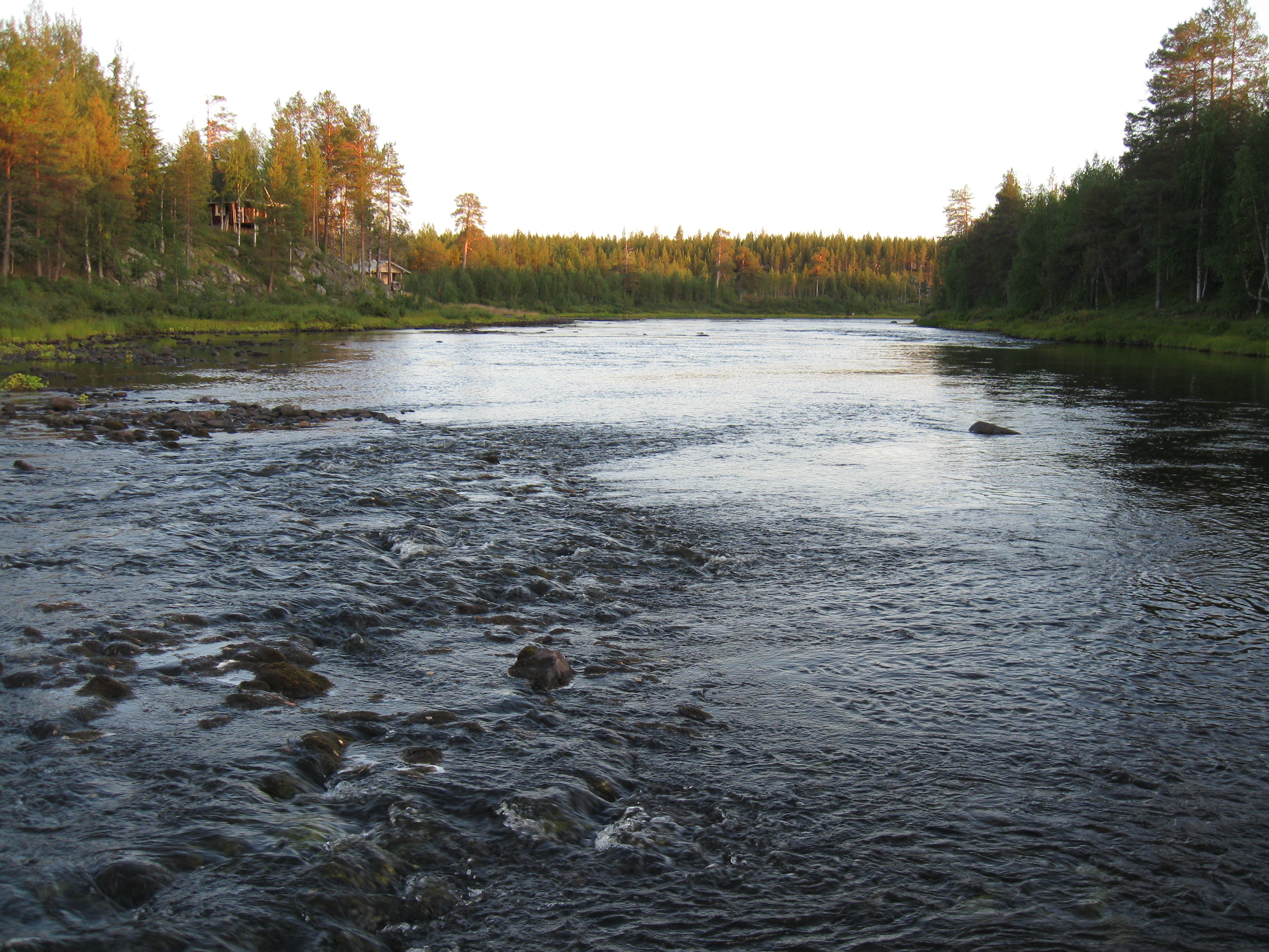 The Luiro river at the mouth of Kuisjoki in Tanhua, Savukoski, Finland.